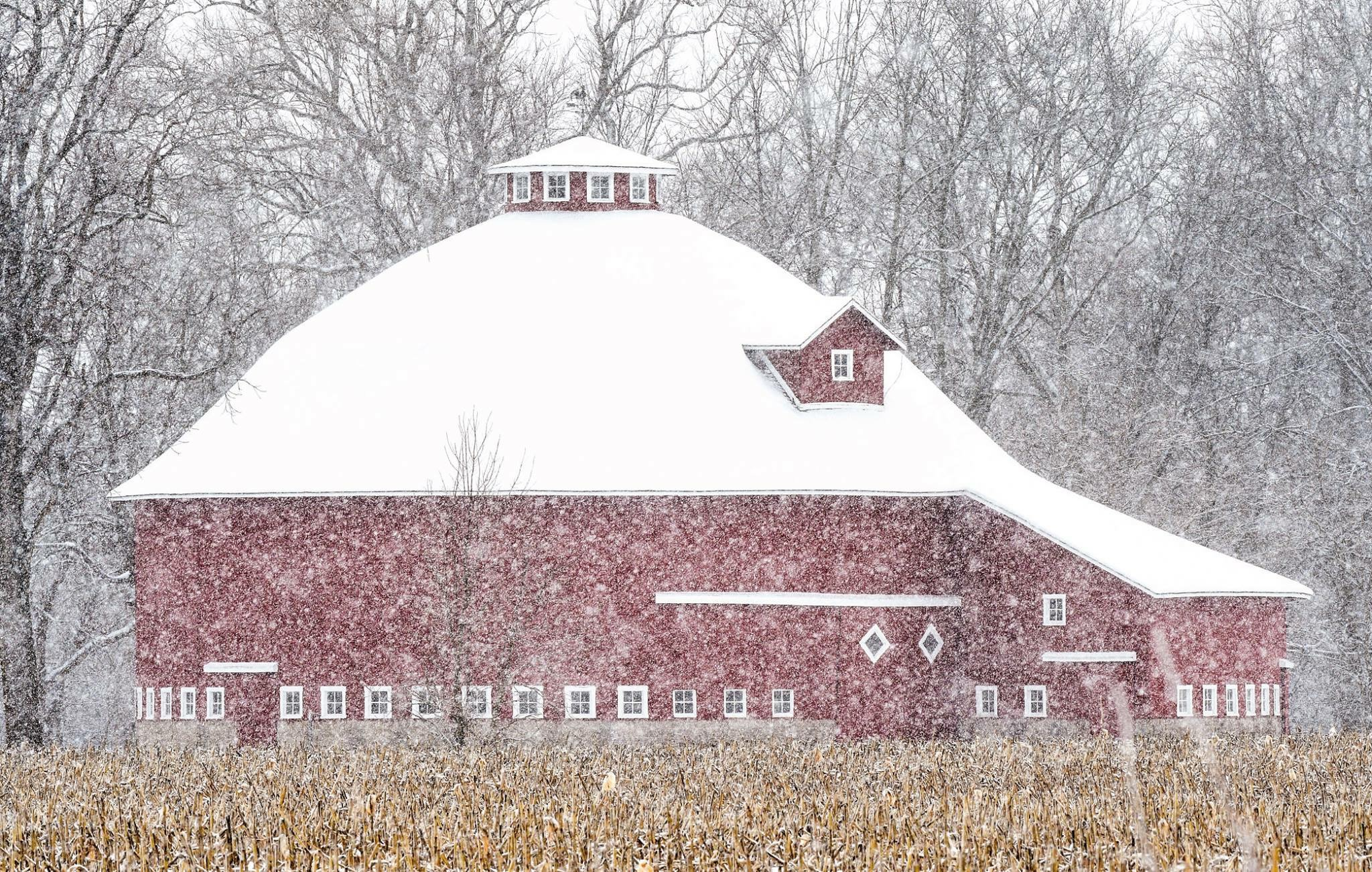 Barn during snowfall